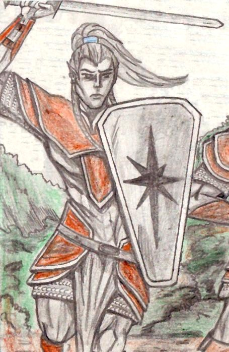 Curufin